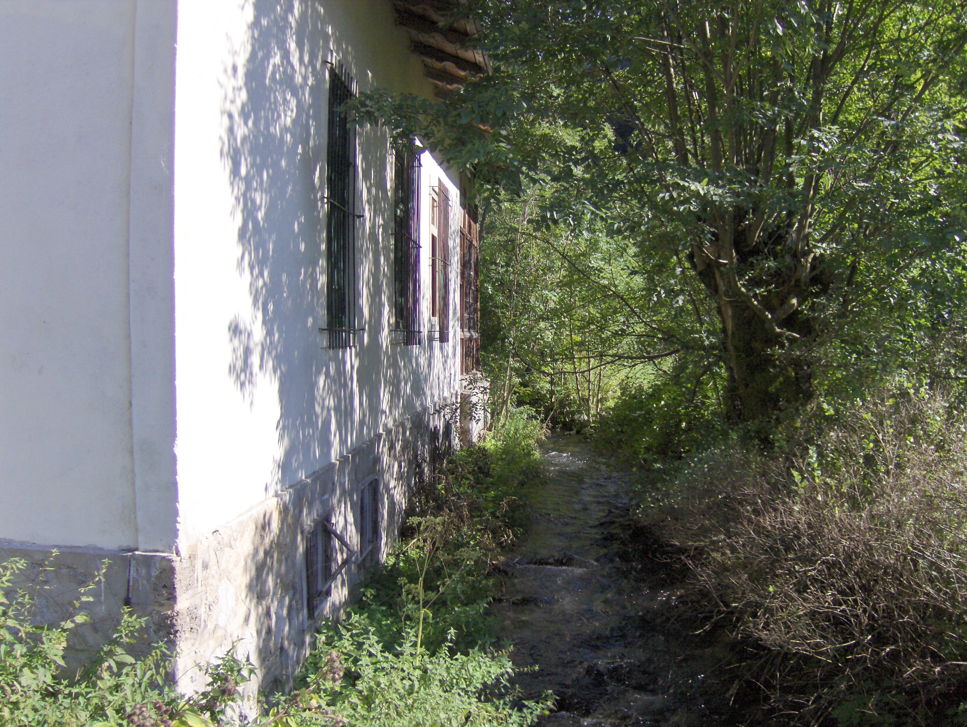 Motycky, Slovakia